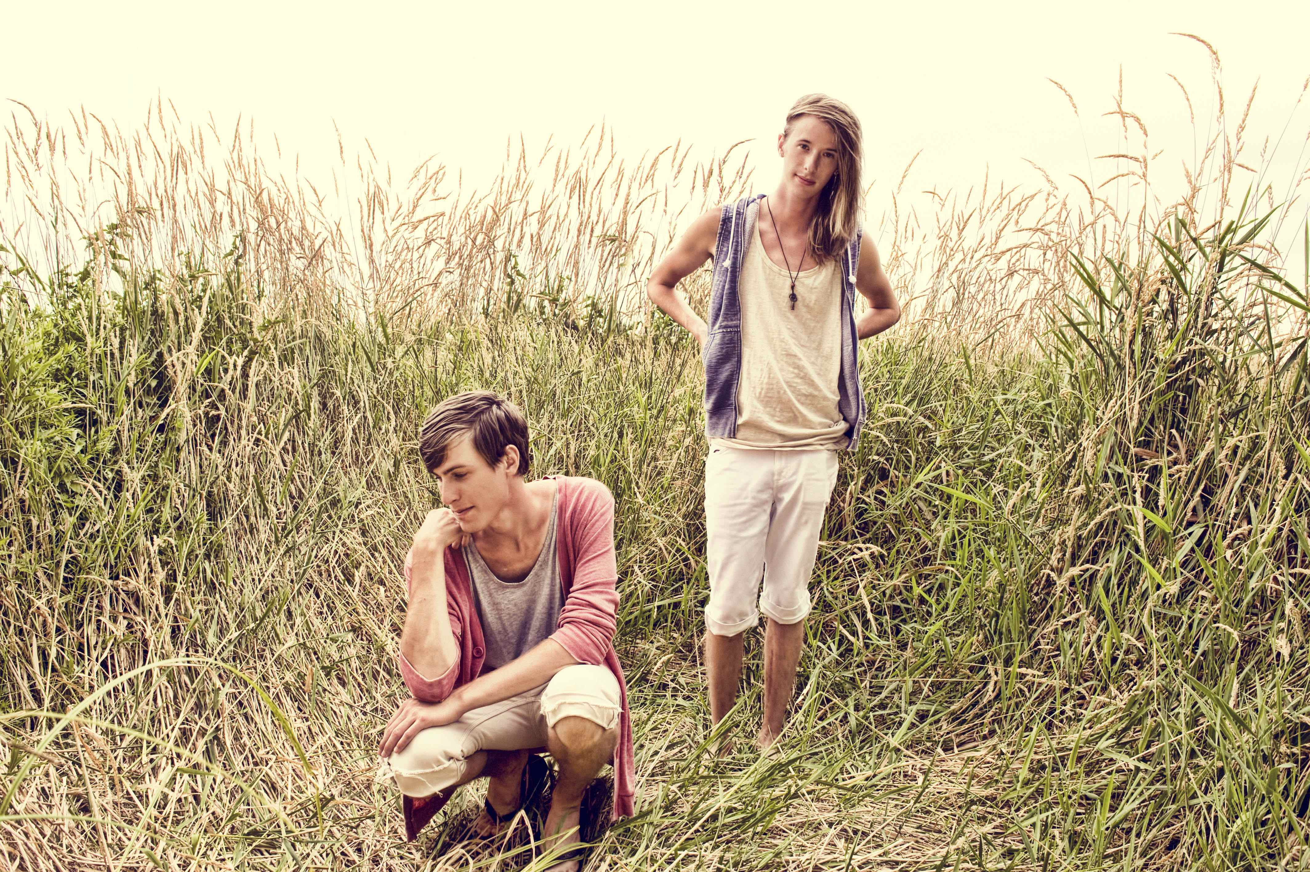 The Silver Heart Club 2013 (originally titled Swamp.jpg when delivered). Photo credit: Calinn Weber.